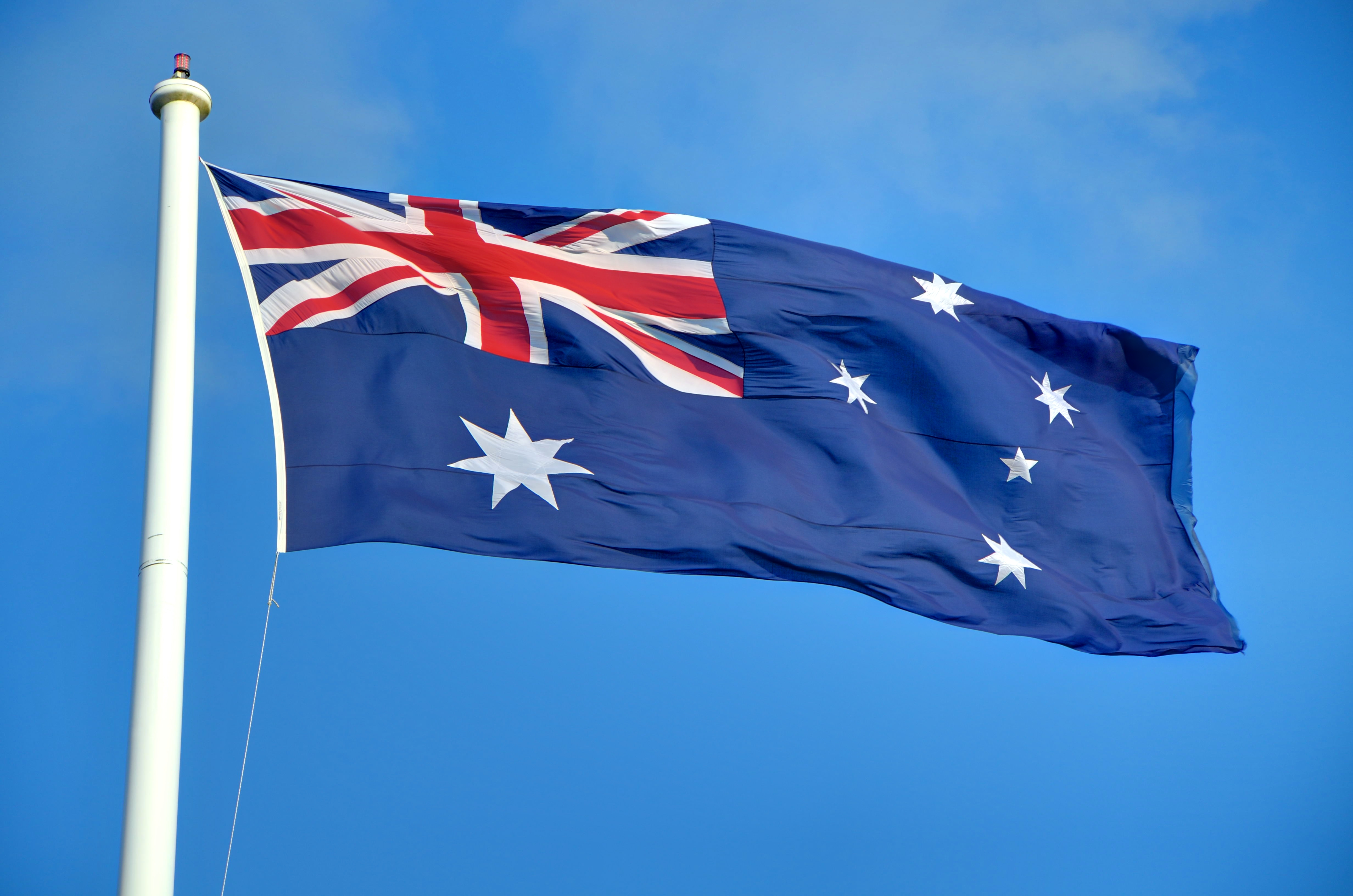 Australian flag seen flying in Toowoomba, Queensland.